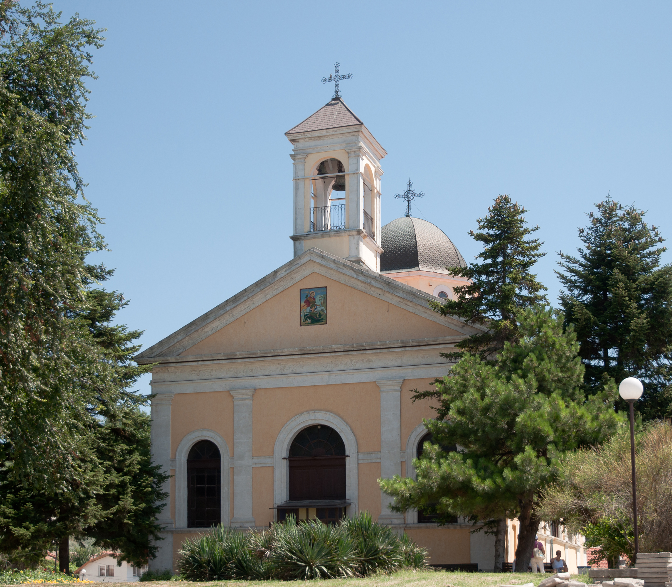 St George church in Balchik, Bulgaria.